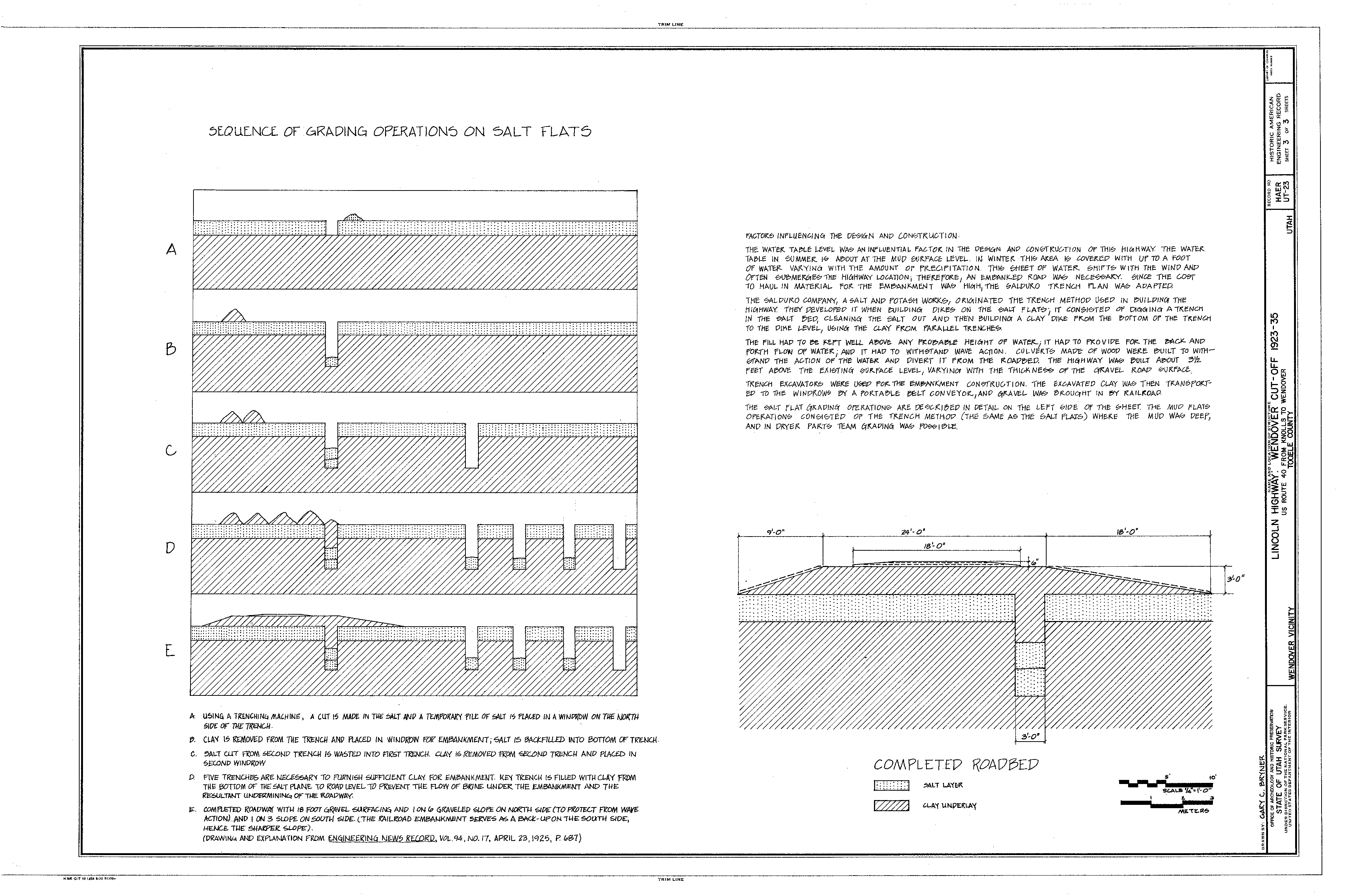 This shows the construction of the Wendover Cut-off in western Utah.